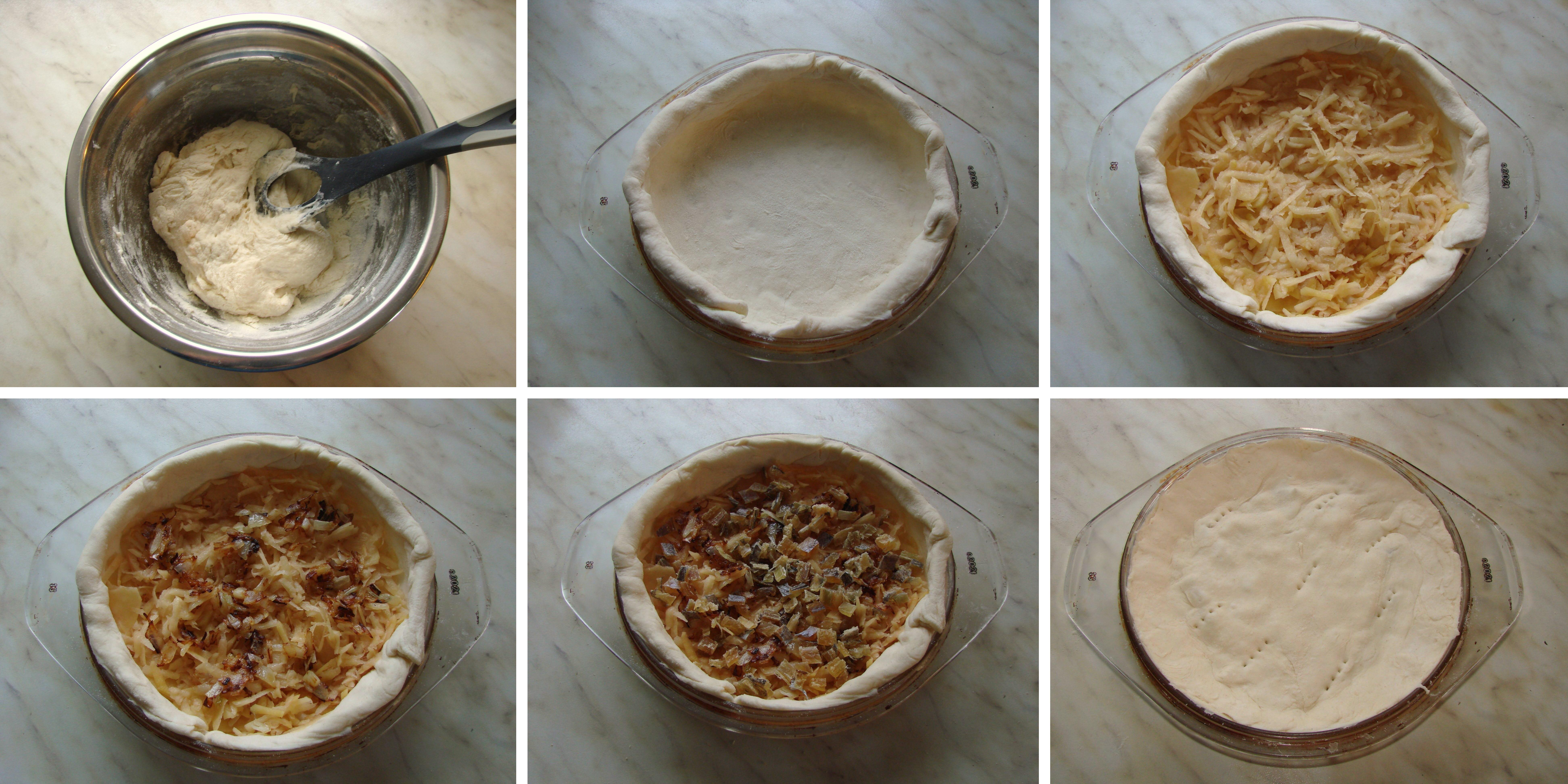 The fish pie popular in the Commander Islands in Russia. Photos: 1. dough, 2. dough in drip pan, 3. dough and potatoes, 4. add onion, 5. add fish meat, 6. finished pie.